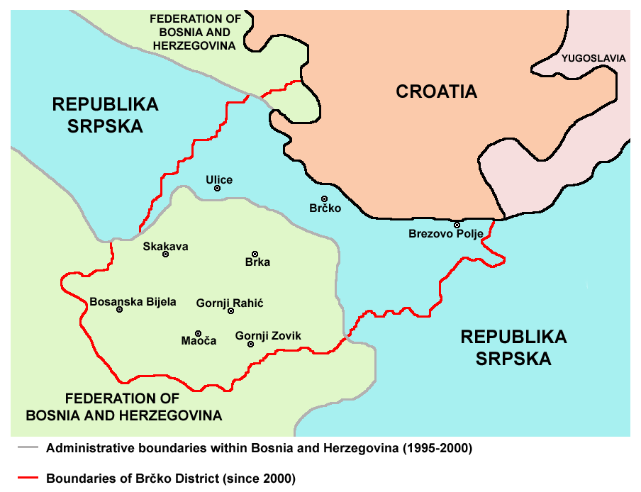 Serbian corridor (1995-2000) and Brčko District (since 2000) within Bosnia and Herzegovina.Srpskohrvatski / српскохрватски: Srpski koridor (1995-2000) i Distrikt Brčko (posle 2000) u okviru Bosne i Hercegovine.